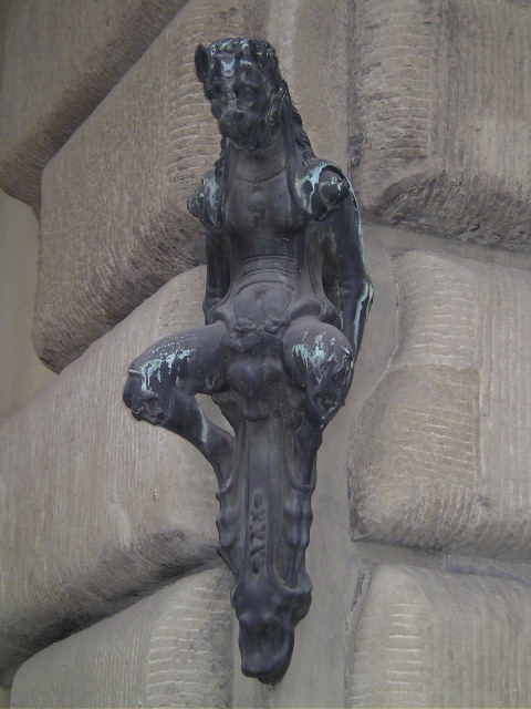 Replica of Giambologna's Devil Bronze Statue at Palazzo Vecchietti in Florence, Italy